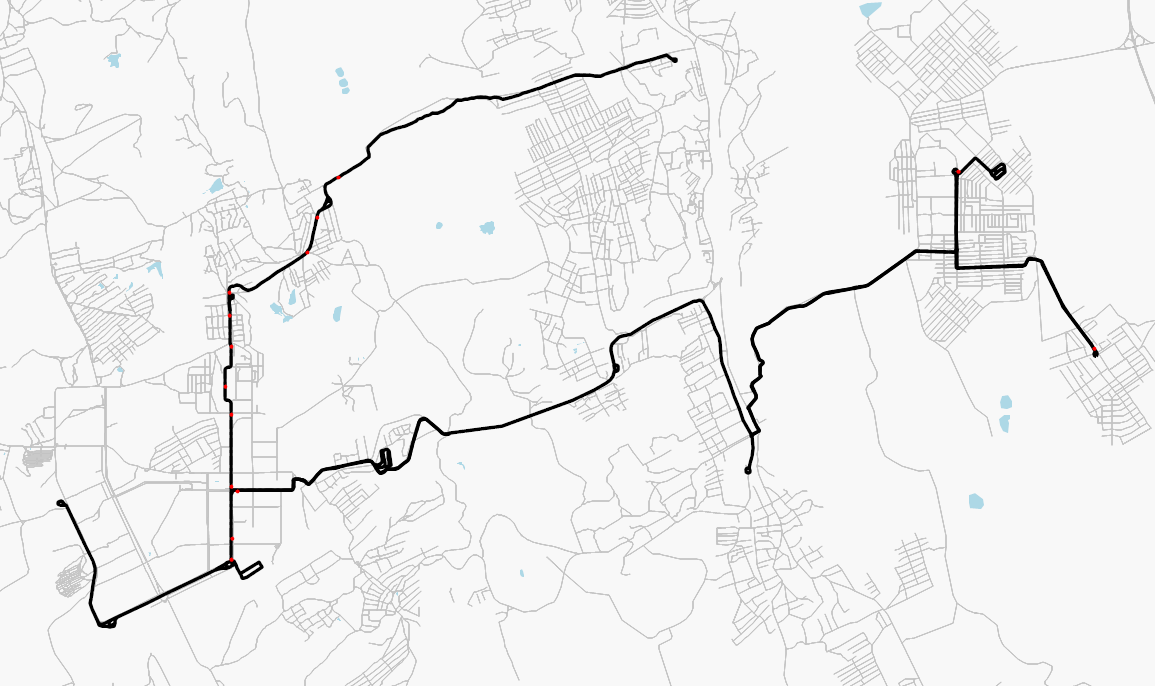 Prokopyevsk tram system, rendered using OSM data. This map may be incomplete, and may contain errors. Don't rely solely on it for navigation.